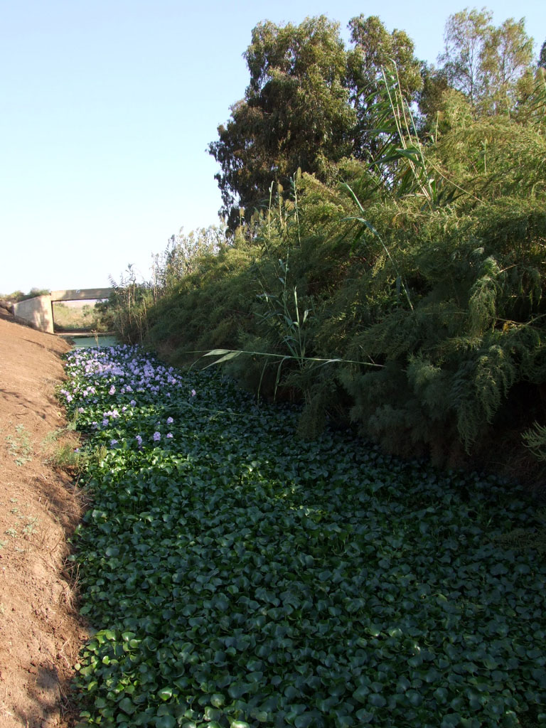 Eichhornia crassipes